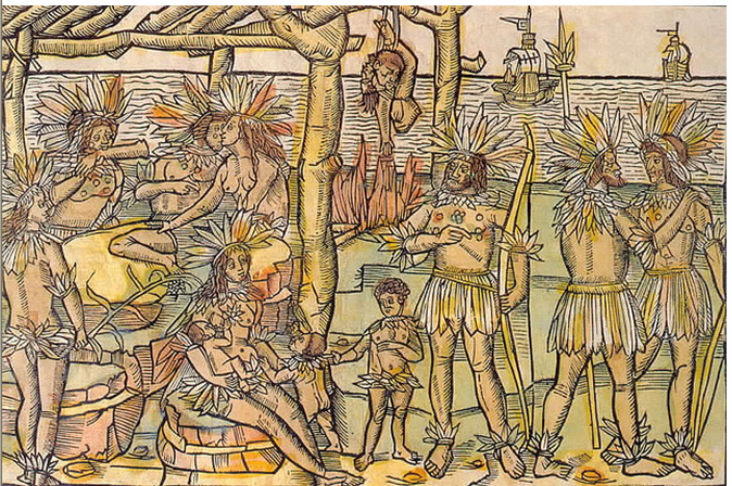 The first known depiction of cannibalism in the New World. Engraving by Johann Froschauer for an edition of Amerigo Vespucci's Mundus Novus, published in Augsburg in 1505. Mundus Novus is Vespucci's account of his third voyage (1501-02) to the New World, specifically to the eastern coast of Brazil. The original caption (in German), reads: "This figure represents to us the people and island which have been discovered by the Christian King of Portugal or by his subjets. The people are thus naked, handsome, brown, well shaped in body, their heads, necks, arms, private parts, feet of men and women are a little covered in feathers. The men also have many precious stones in their faces and breasts. No one also has anything, but all things are in common. And the men have as wives those who please them, be they mothers, sisters, or friends, therein they make no distinction. They also fight with each other. They also eat each other, even those who are slain, and hang the flesh of them in the smoke. They become one hundred and thirty years old. And have no government."